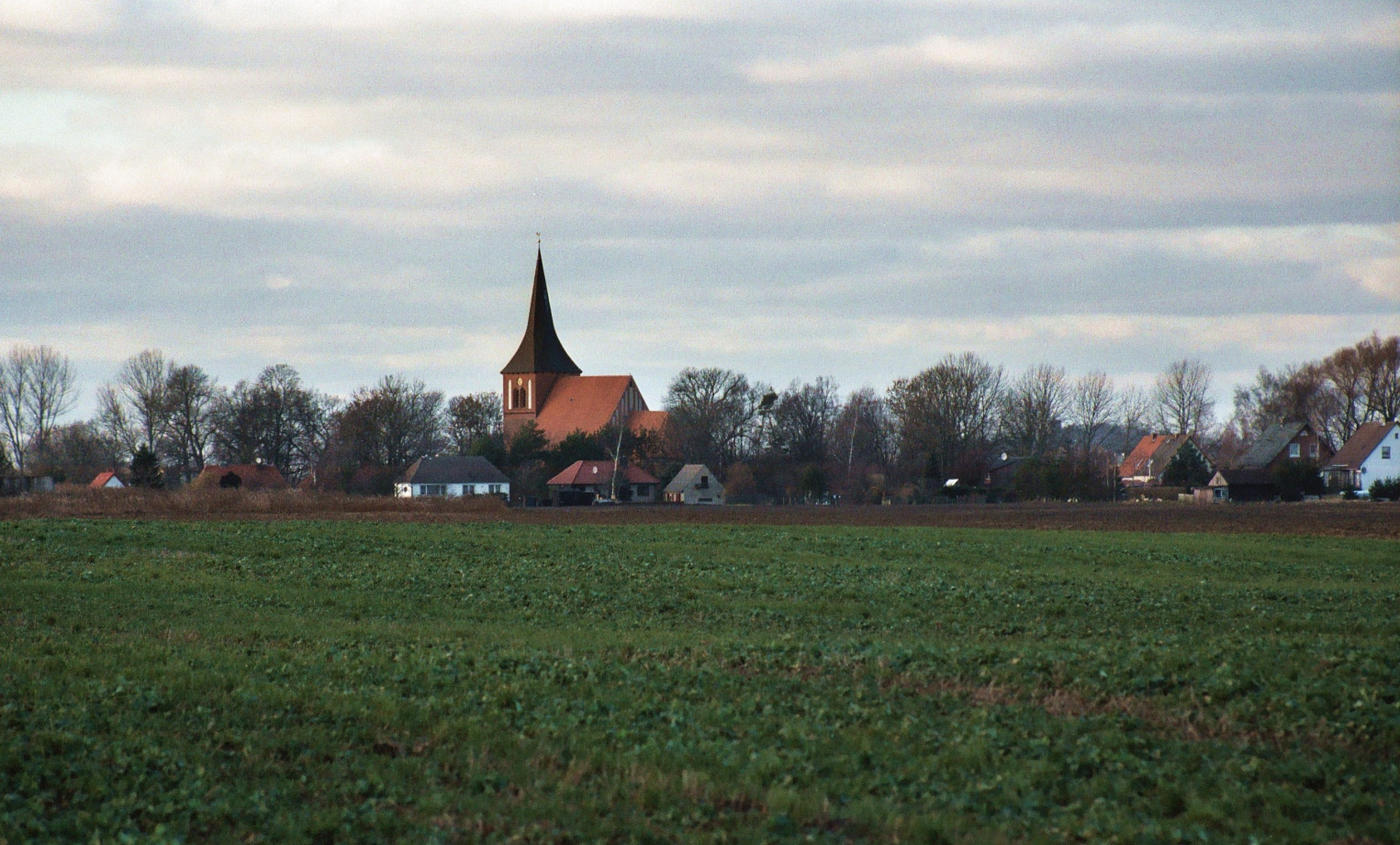 Lüdershagen, view to the church St.George